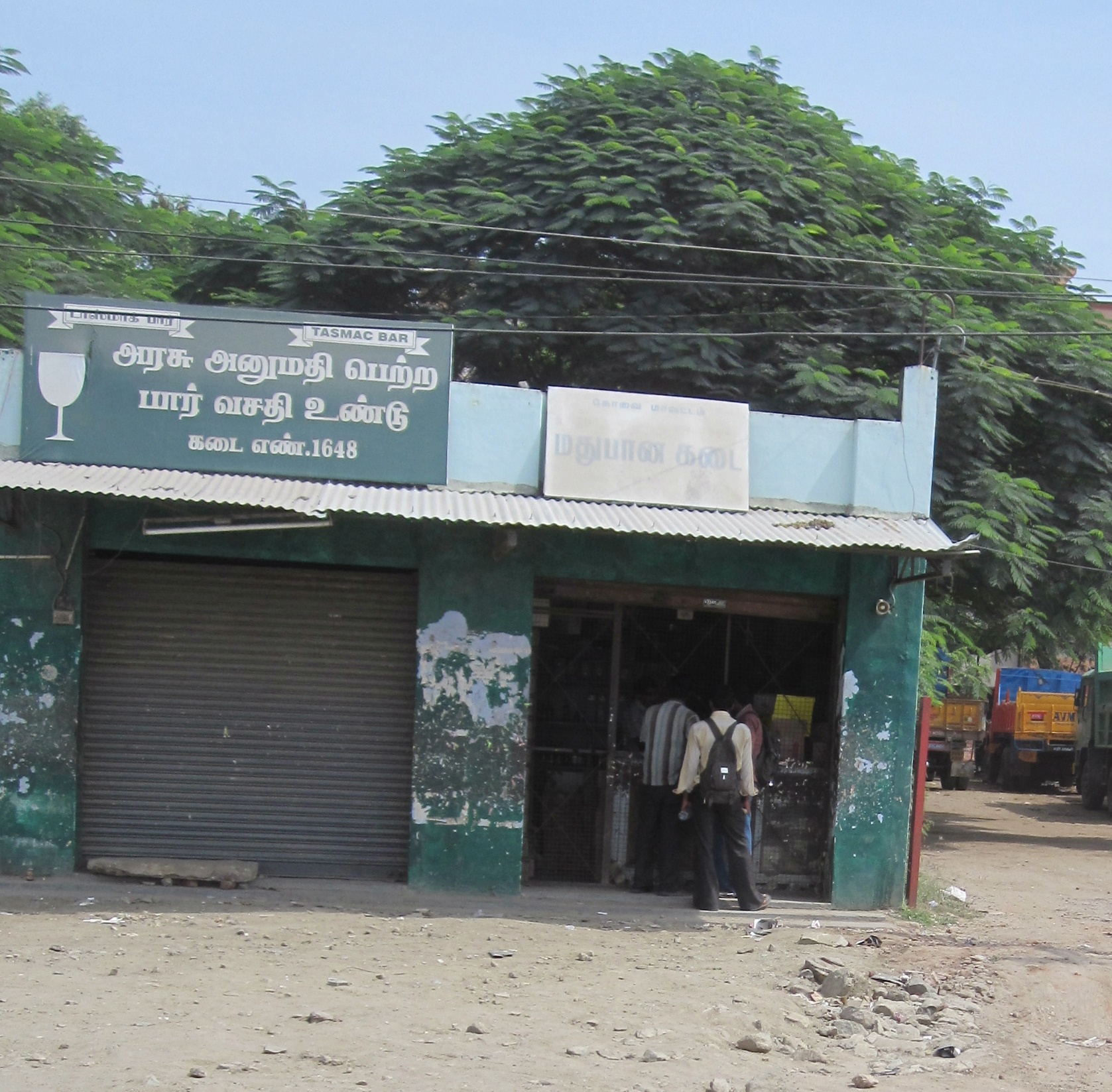 A TASMAC liquor shop at Coimbatore, Tamil Nadu. TASMAC has the monopoly in retail and wholesale vending of alcohol in the state. 2010-11 revenues stood at nearly 15,000 Crore INR